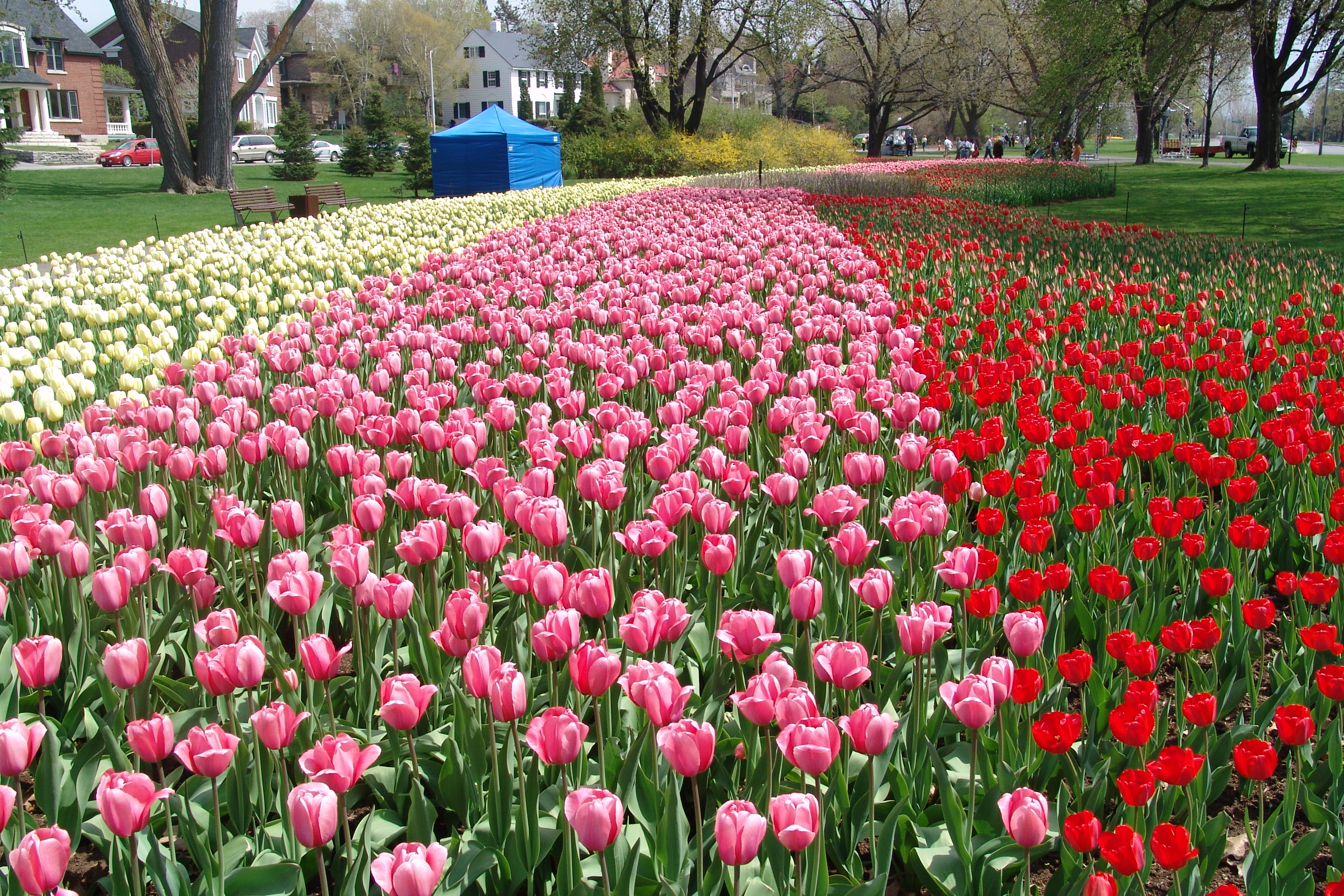 Tulips found at Dow's Lake in Ottawa throughout the Tulip Festival. The majority of these tulips can be found alongside the Rideau Canal.